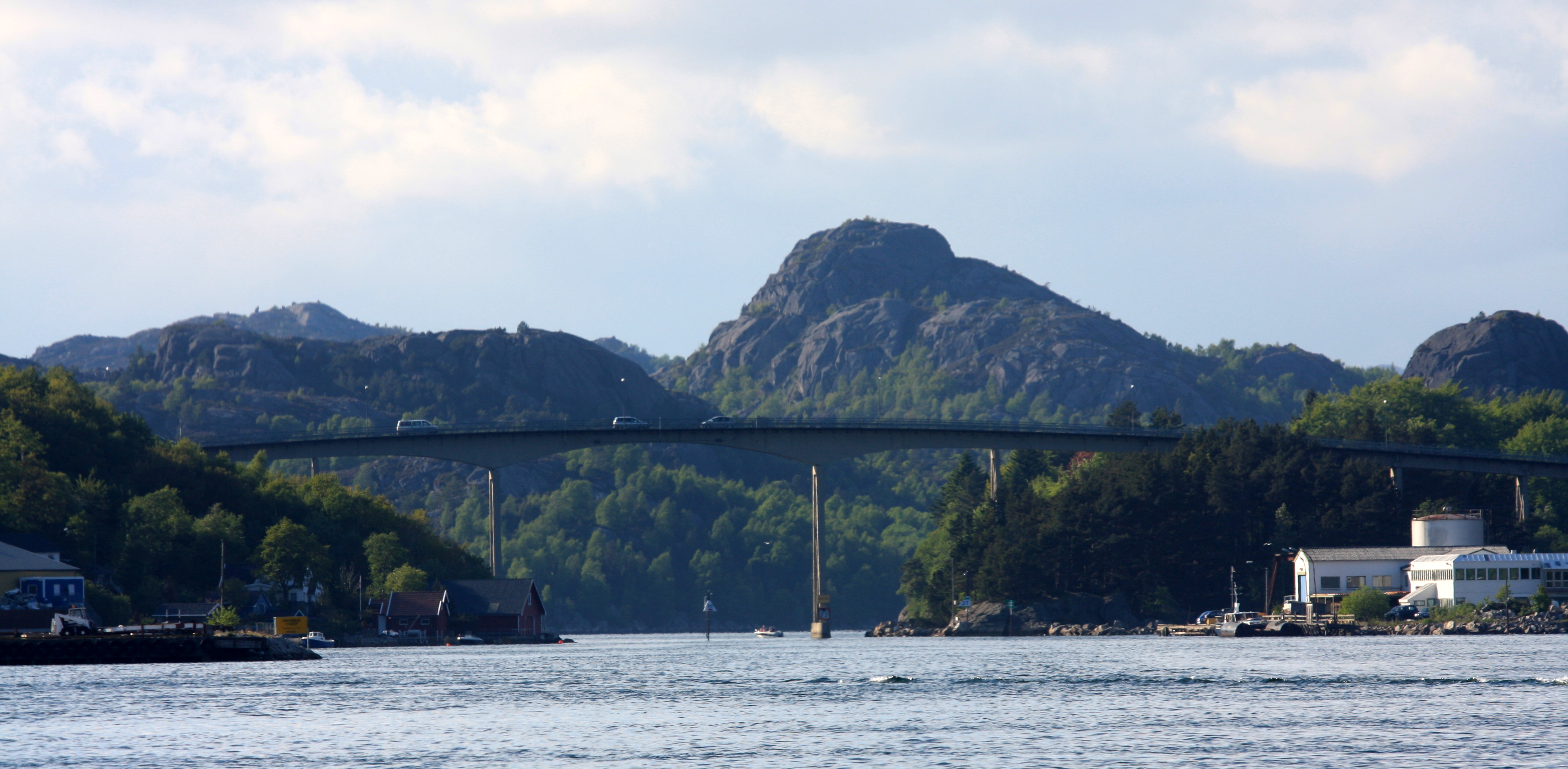 Eigerøy bru, viewed from the South